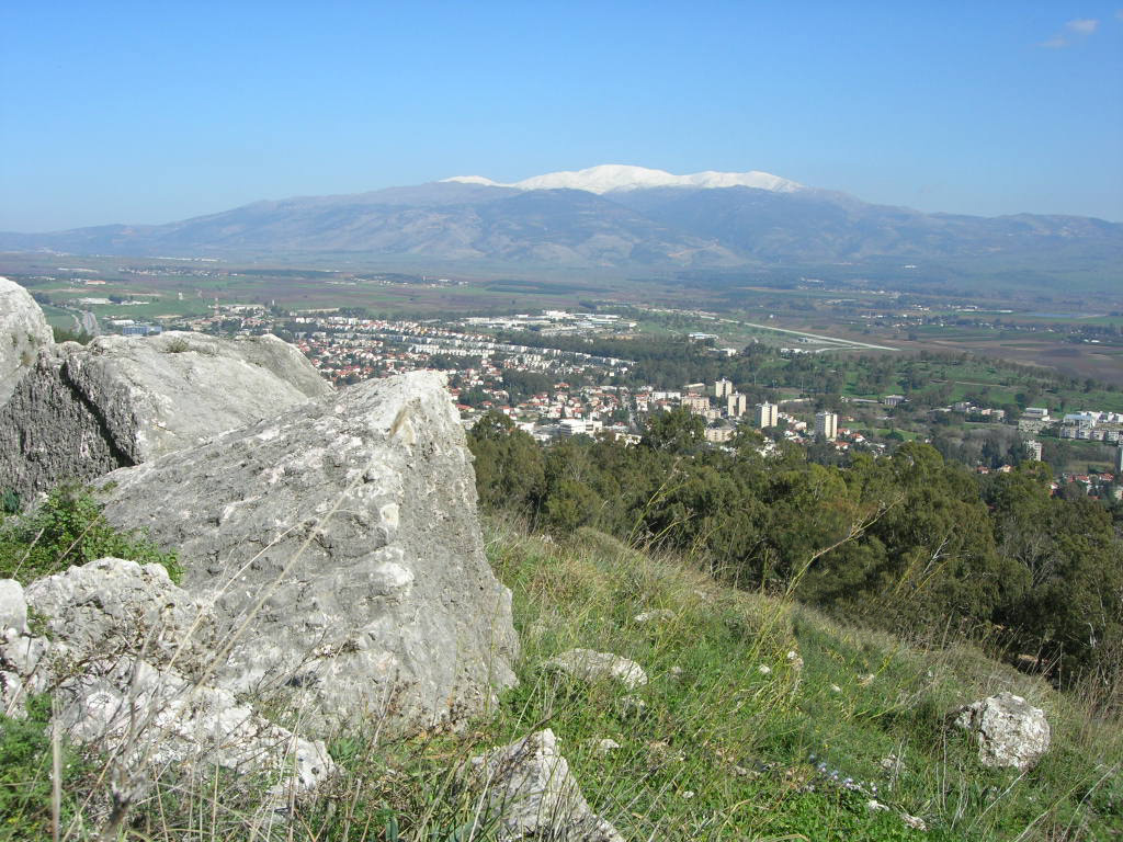 Kiryat Shmona and Mount Hermon